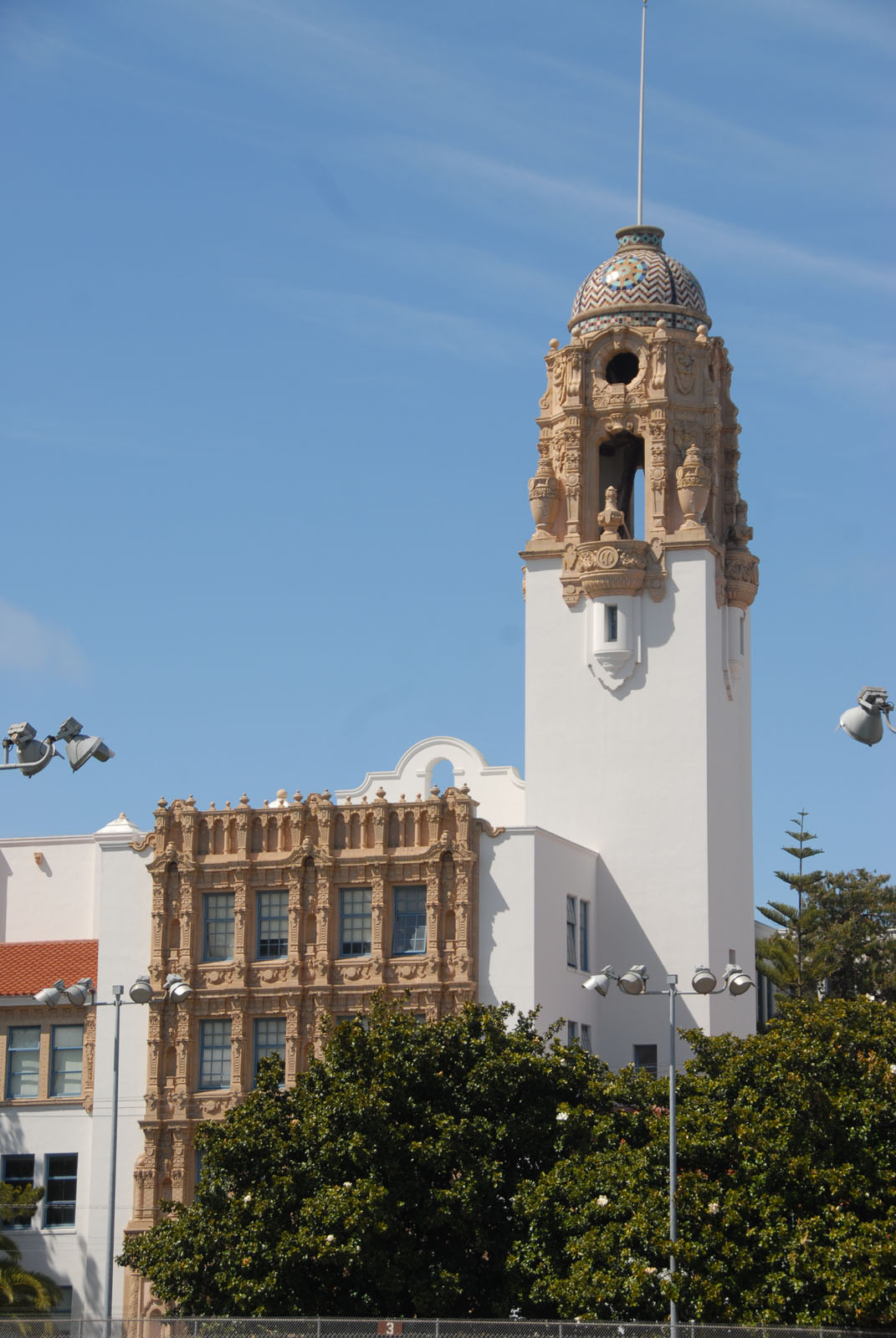 Mission High School, as seen from Dolores Park